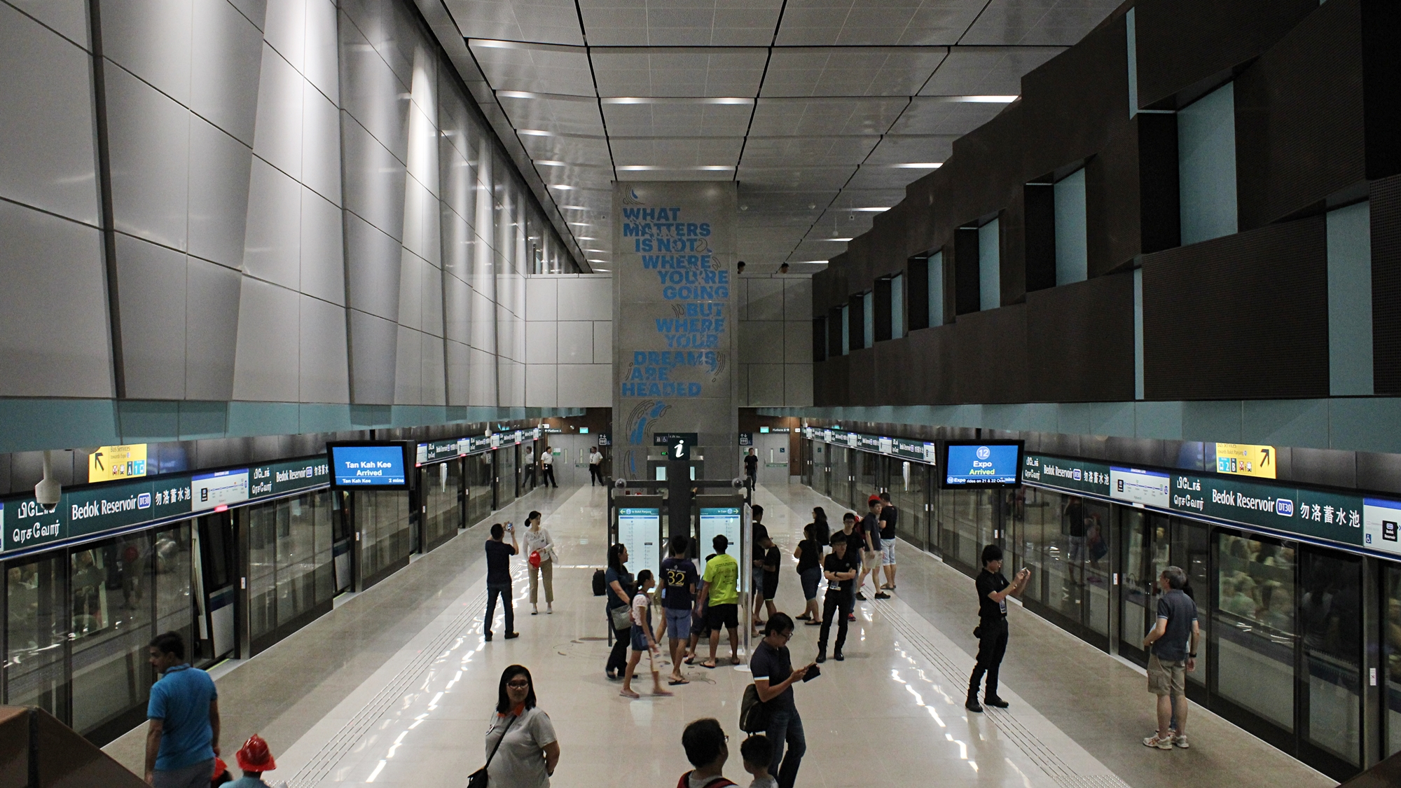 DT30 Bedok Reservoir station